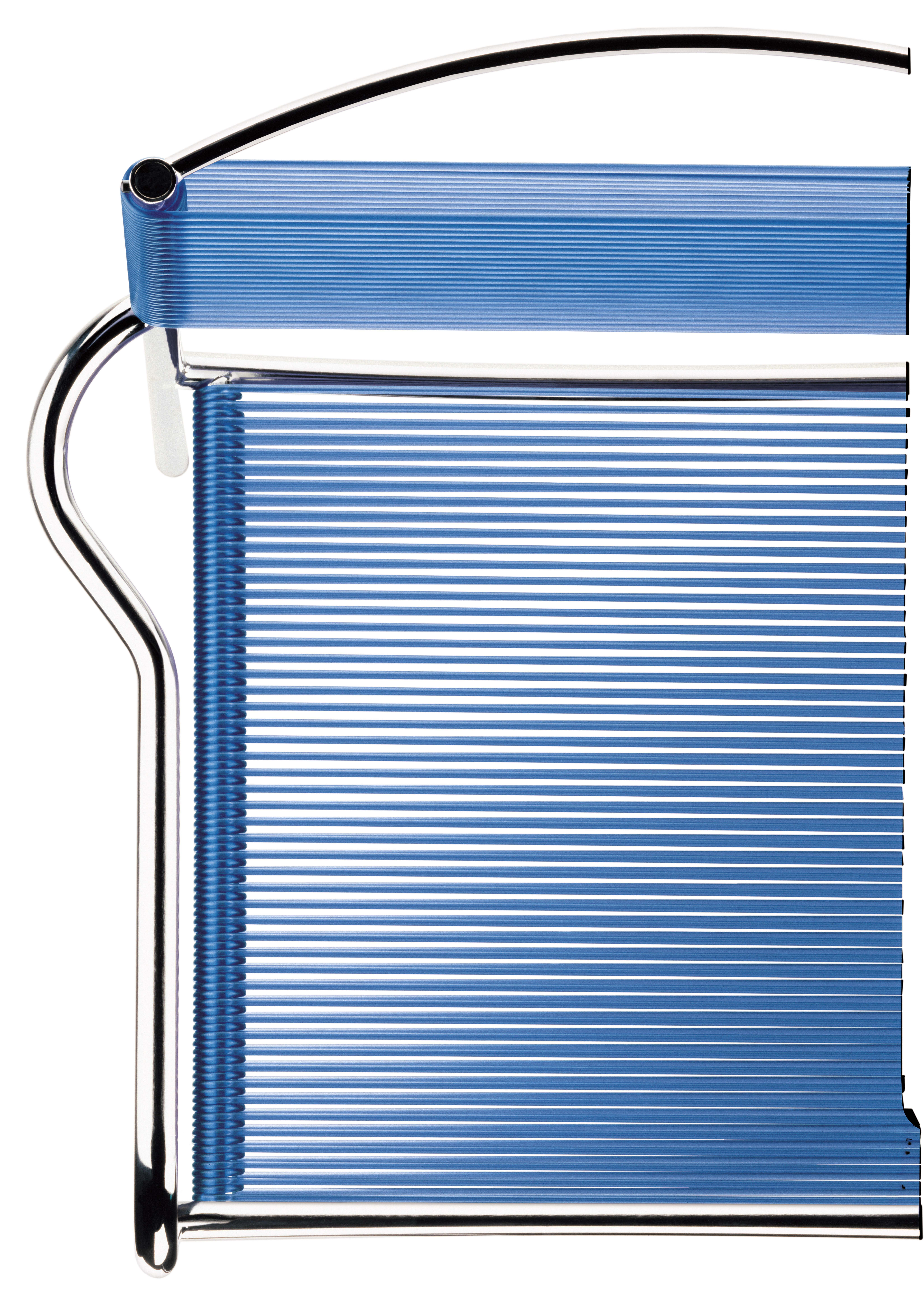 Spaghetti Chair (detail) designed by Giandomenico Belotti for Alias S.p.A. (1980)